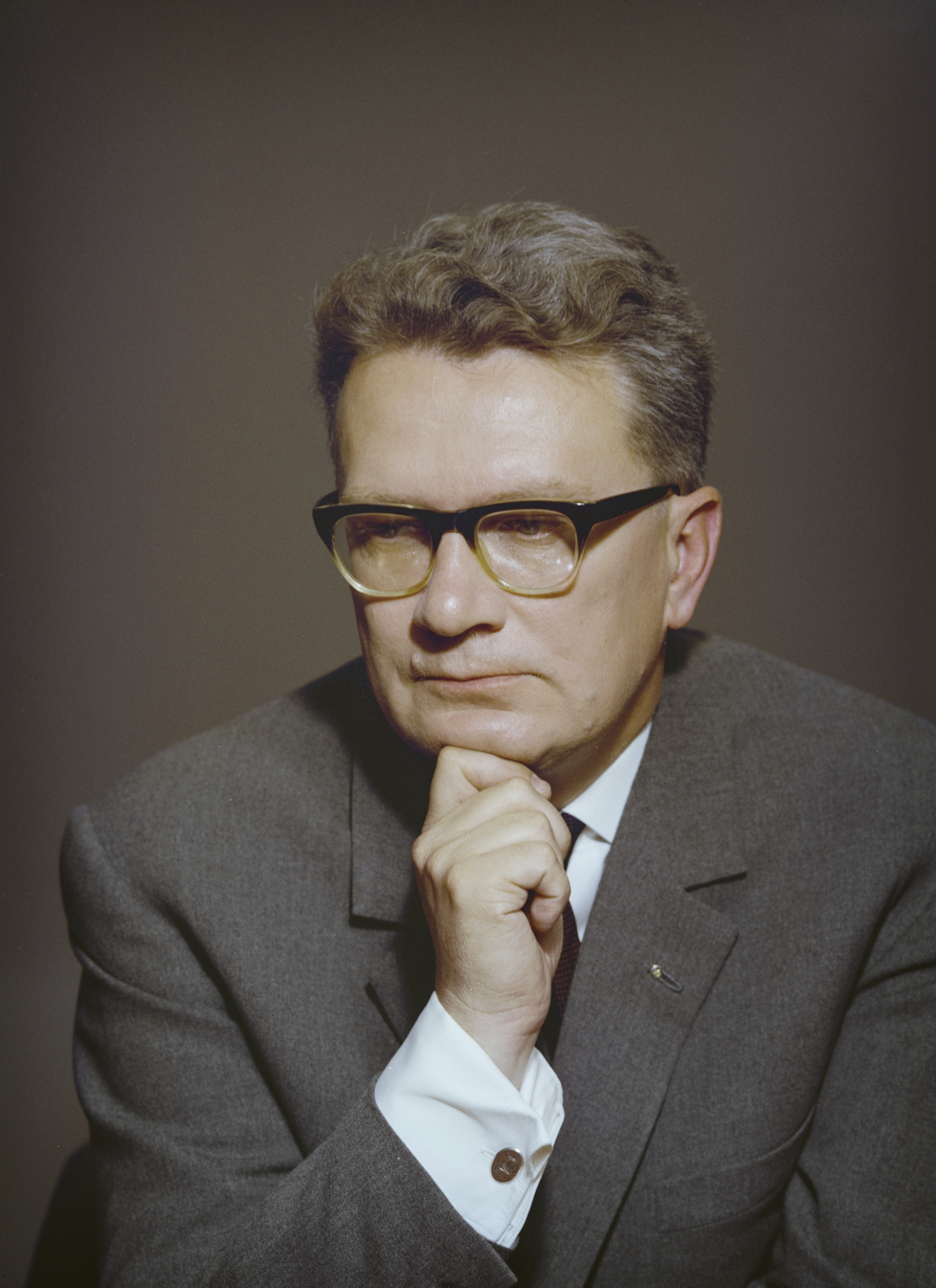 Photograph of the Finnish law professor Matti Ylöstalo (1917–2002).